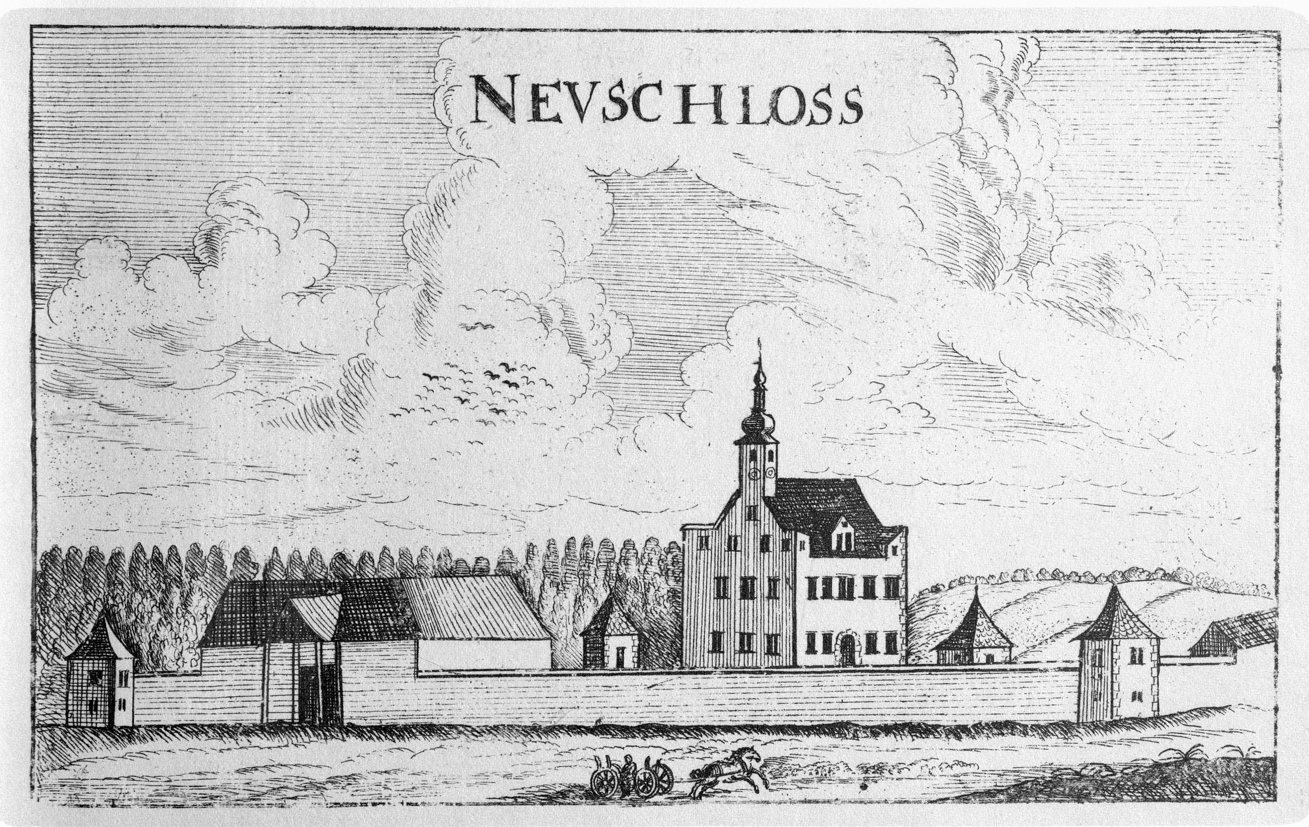 Schloss Neuschloss in Wundschuh, Styria, Austria